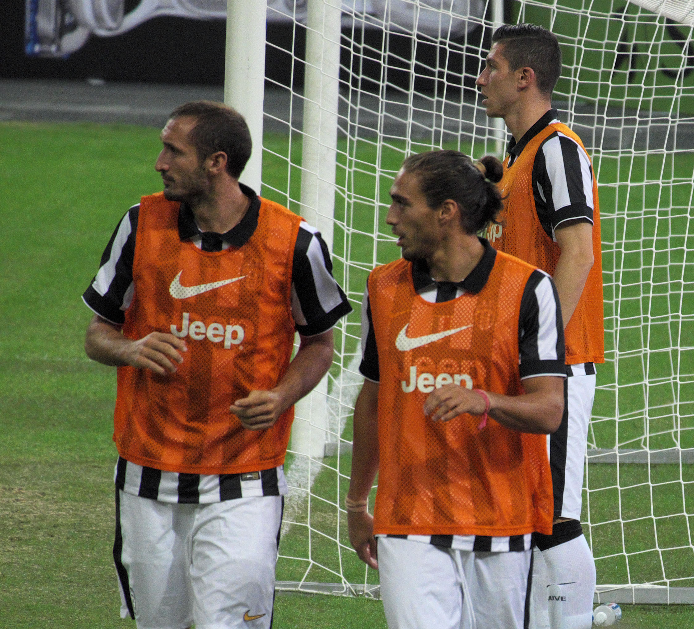 Singapore Selection vs Juventus @ National Stadium